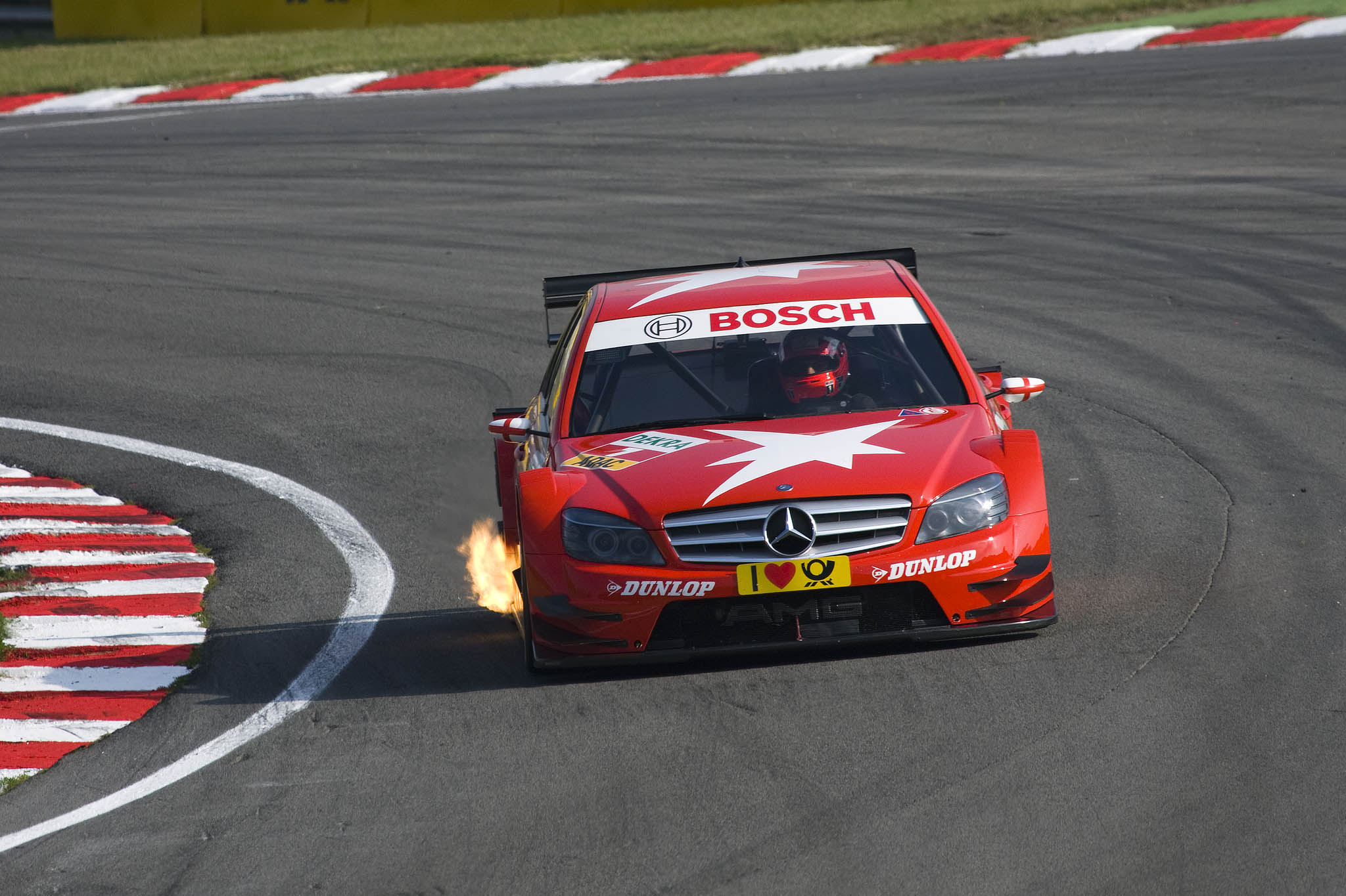 DTM Round at Brands Hatch 2008. Flames again!